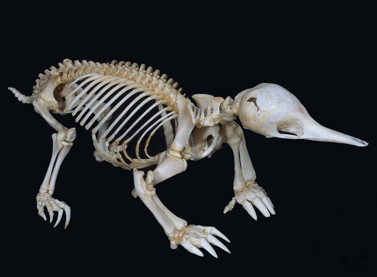 Short-beaked Echidna Skeleton Articulated by Skulls Unlimited International.